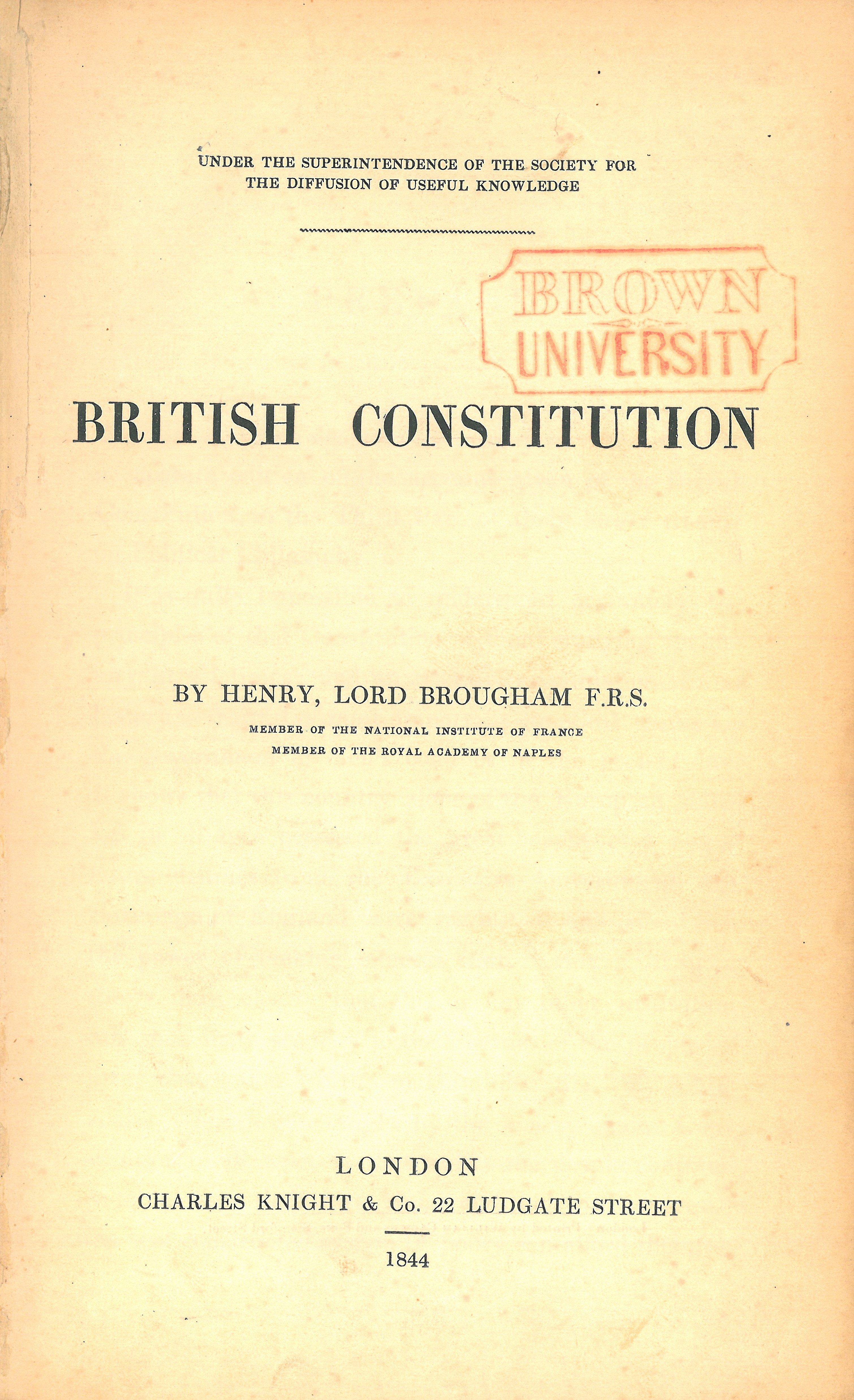 The title page of Henry, Lord Brougham (1844) British Constitution, 1st edition, London: Charles Knight & Co. 22 Ludgate Street, OCLC 603347721.